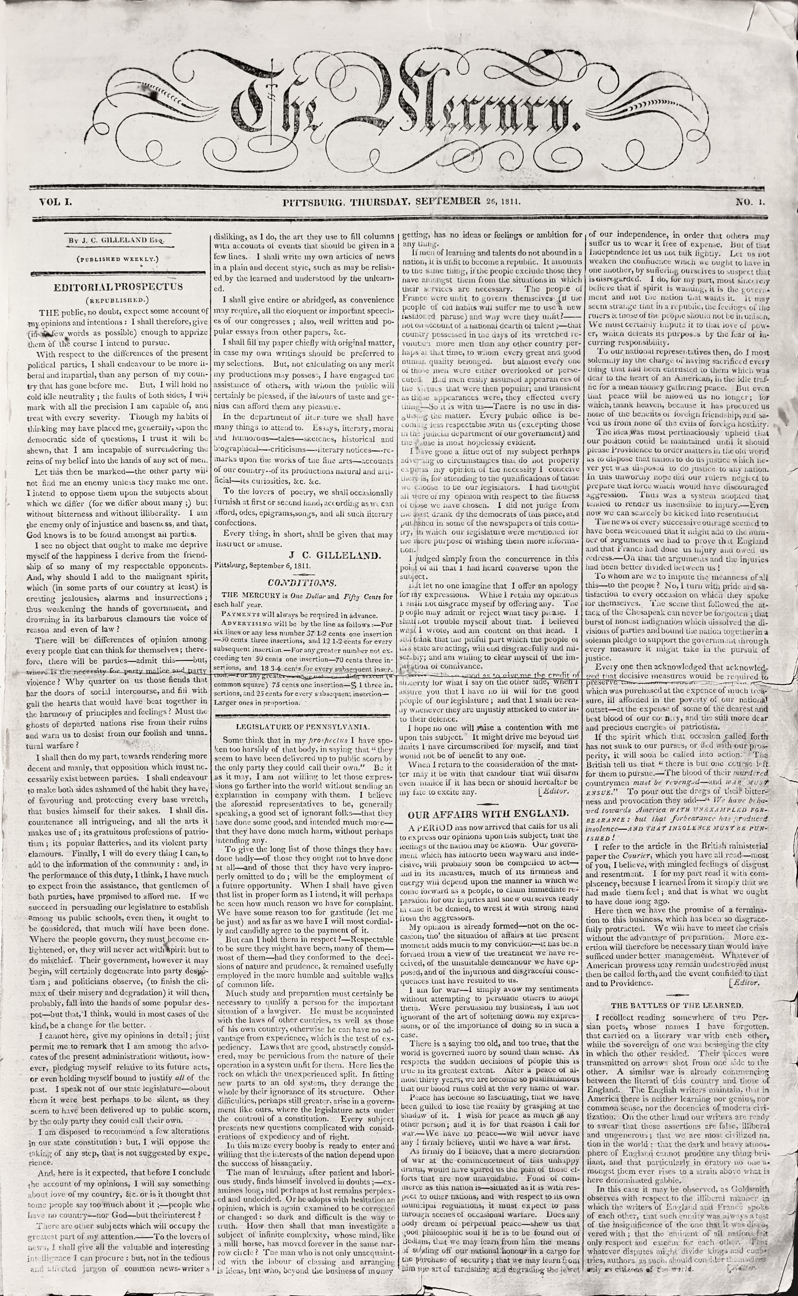 Front page of the first issue of The Mercury newspaper (Pittsburgh, Pennsylvania, United States), dated 26 September 1811.